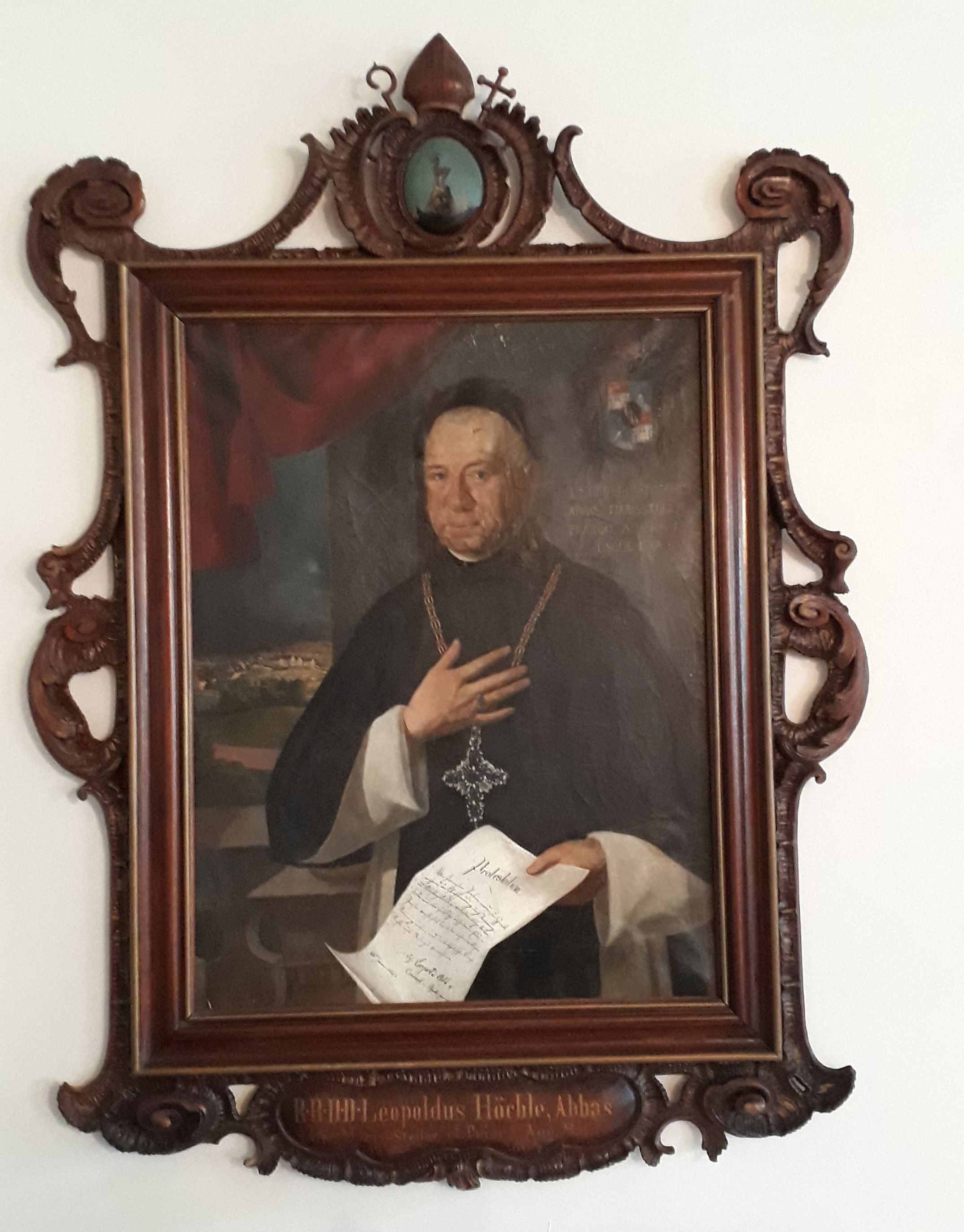 Mehrerau Abbey in Bregenz (Wettingen-Mehrerau Territorial Abbey), Vorarlberg, Austria. Painting of the Leopold Hoechle.